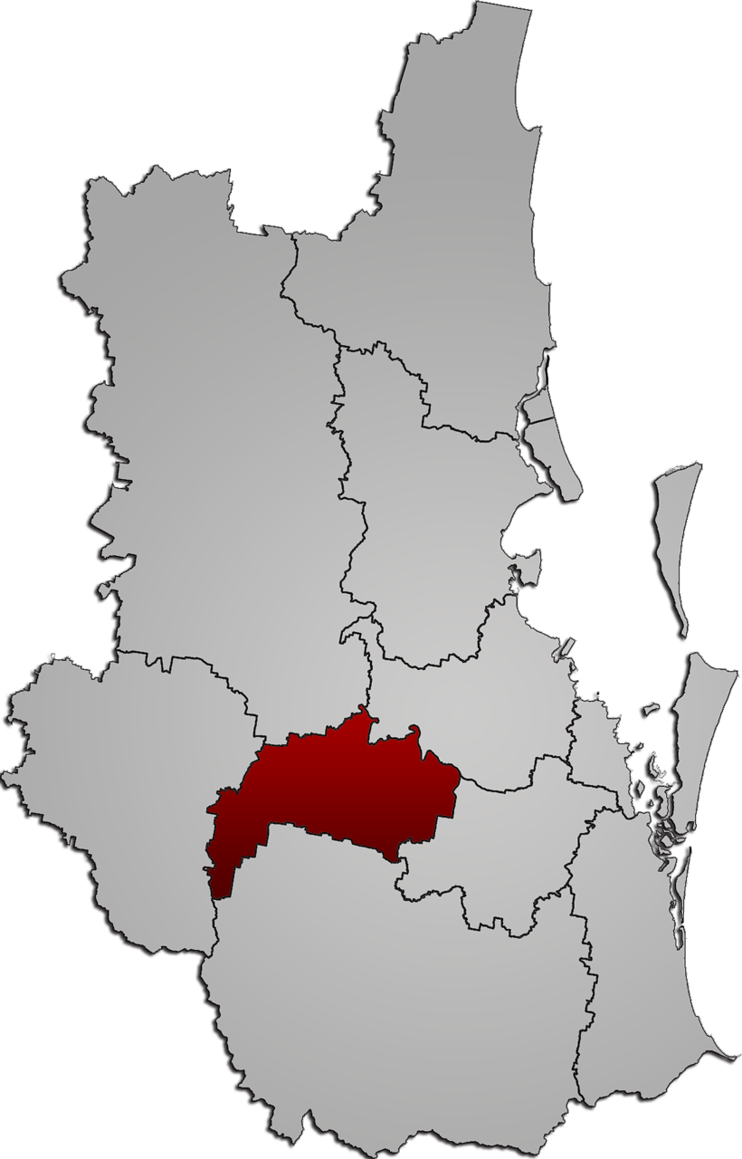 Ipswich City Council from 15 March, 2008